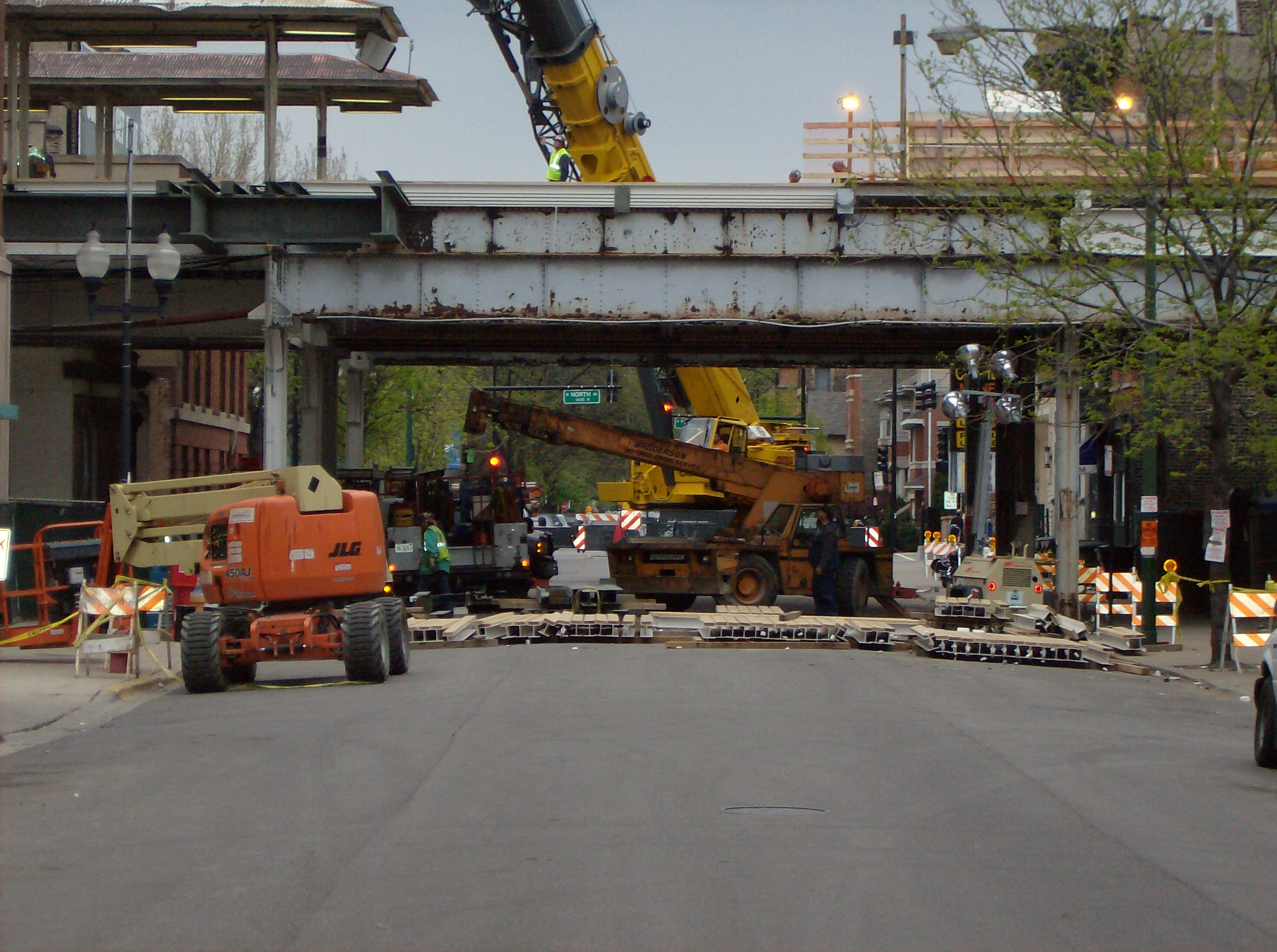 Close-up view of the 2007 renovation of Sedgwick.